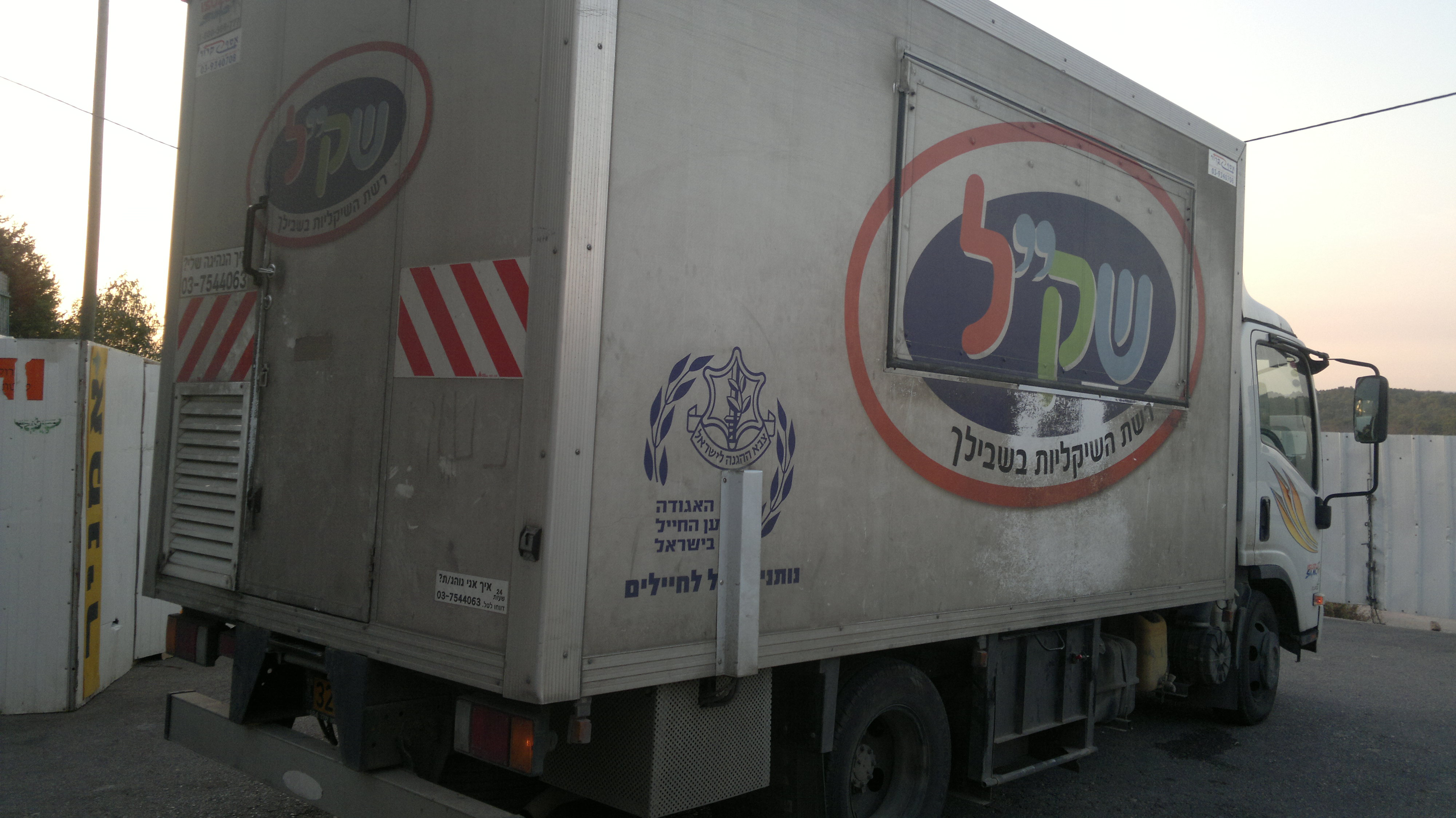 Truck sells products to IDF soldiers